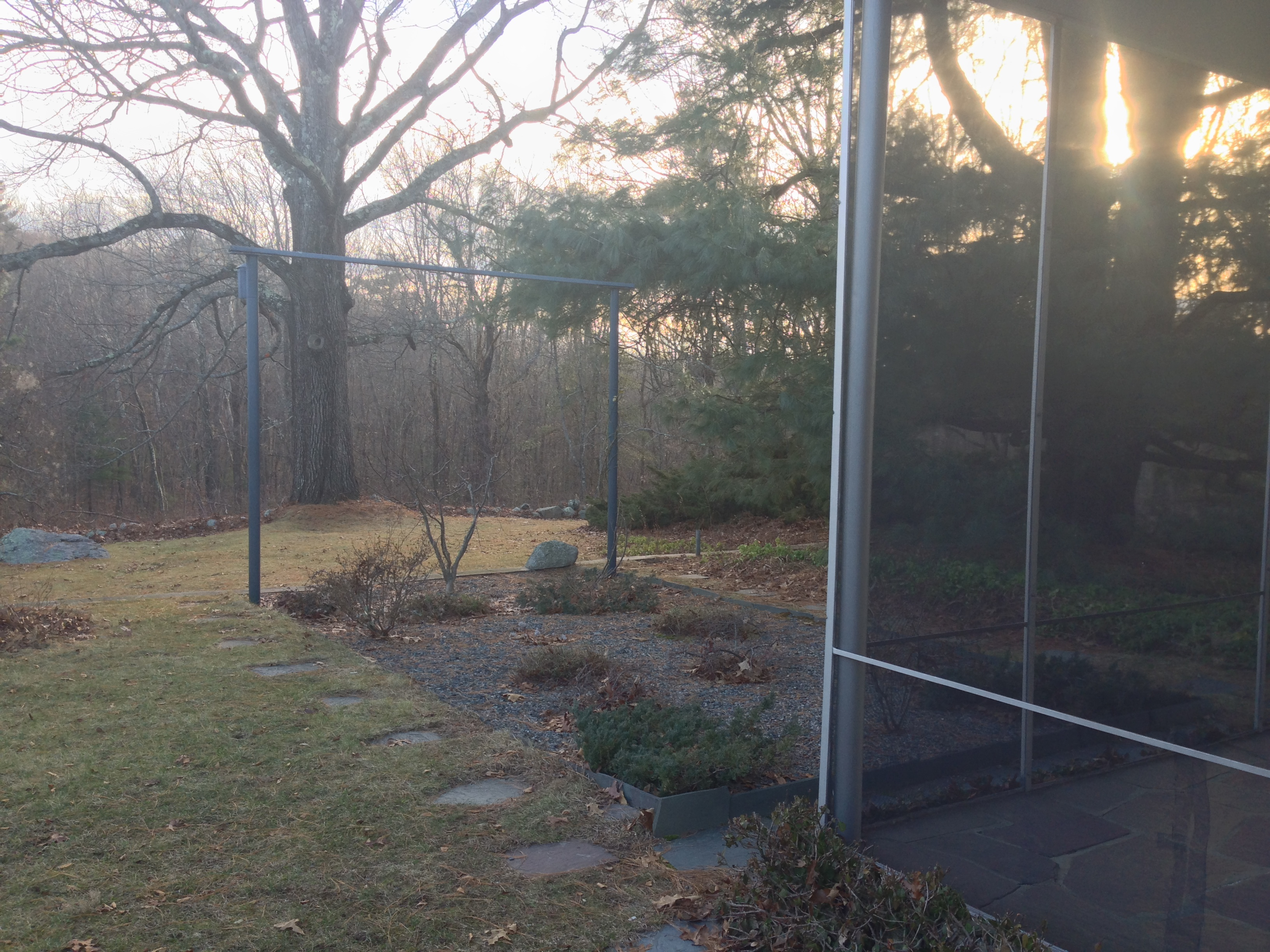 Gropius house